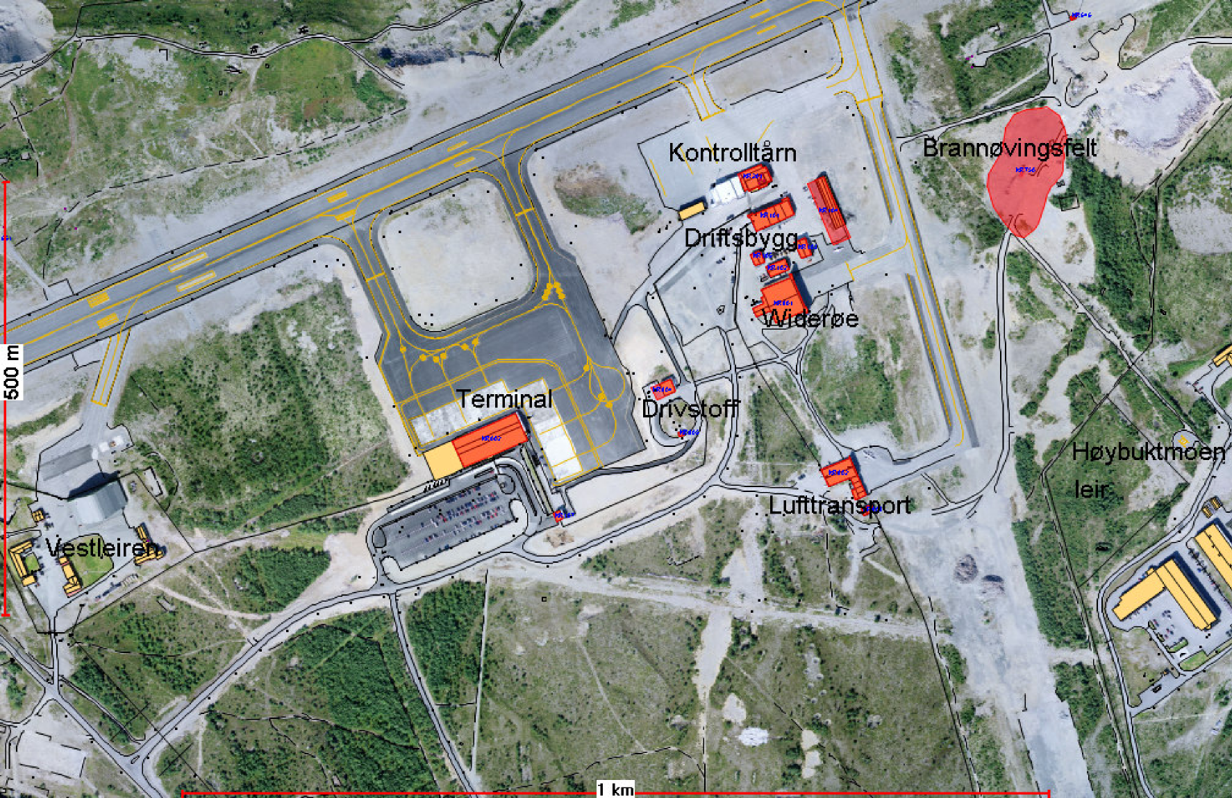 Map of the terminal, tarmac and vicinity of Kirkens Airport, Høybunktmoen in Norway